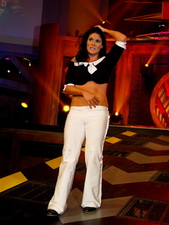 Tracy Brooks in Orlando at TNA Wrestling show. Photo by Rob Beukema